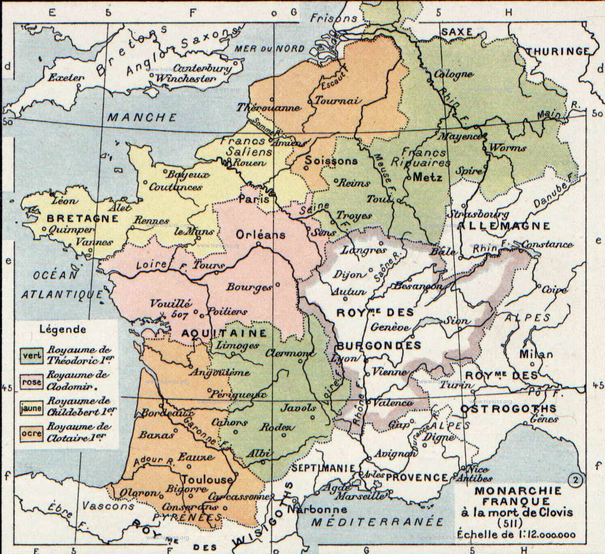 The map comes from Vidal-Lablache, Atlas général d'histoire et de géographie (1894). It shows Gaul in 511 AD.